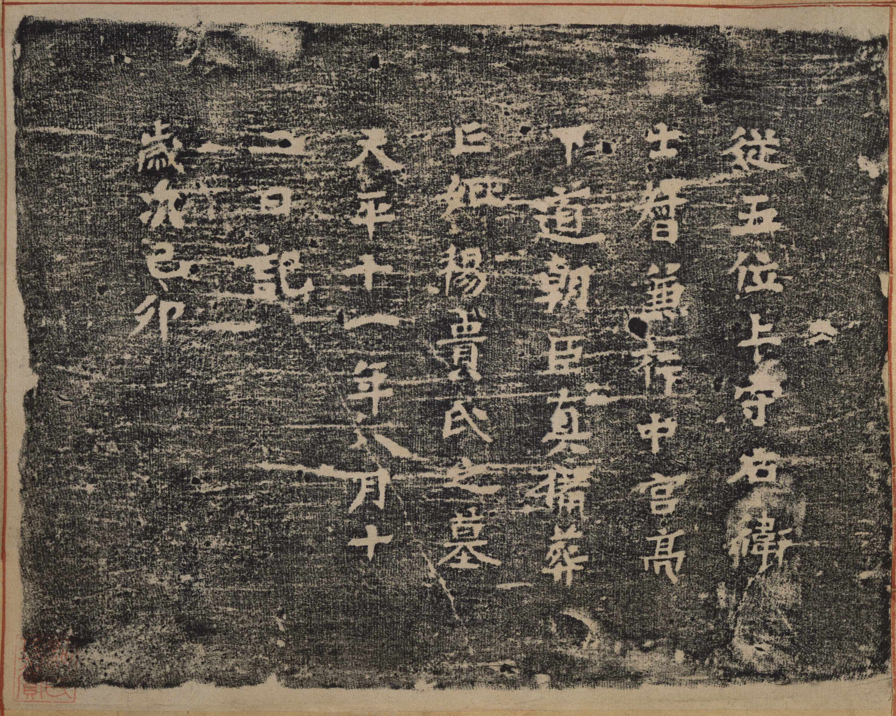 Rubbing of Yagi Epitaph by Ichikawa Kansai. A collection of Tokyo National Museum.